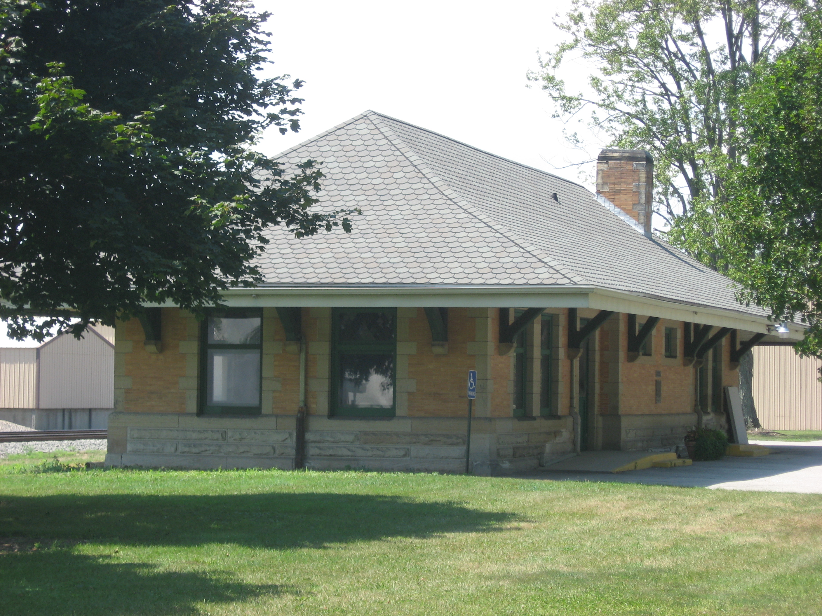 Front of the Stryker Depot, located along N. Depot Street in Stryker, Ohio, United States. Built in 1900, it is listed on the National Register of Historic Places.